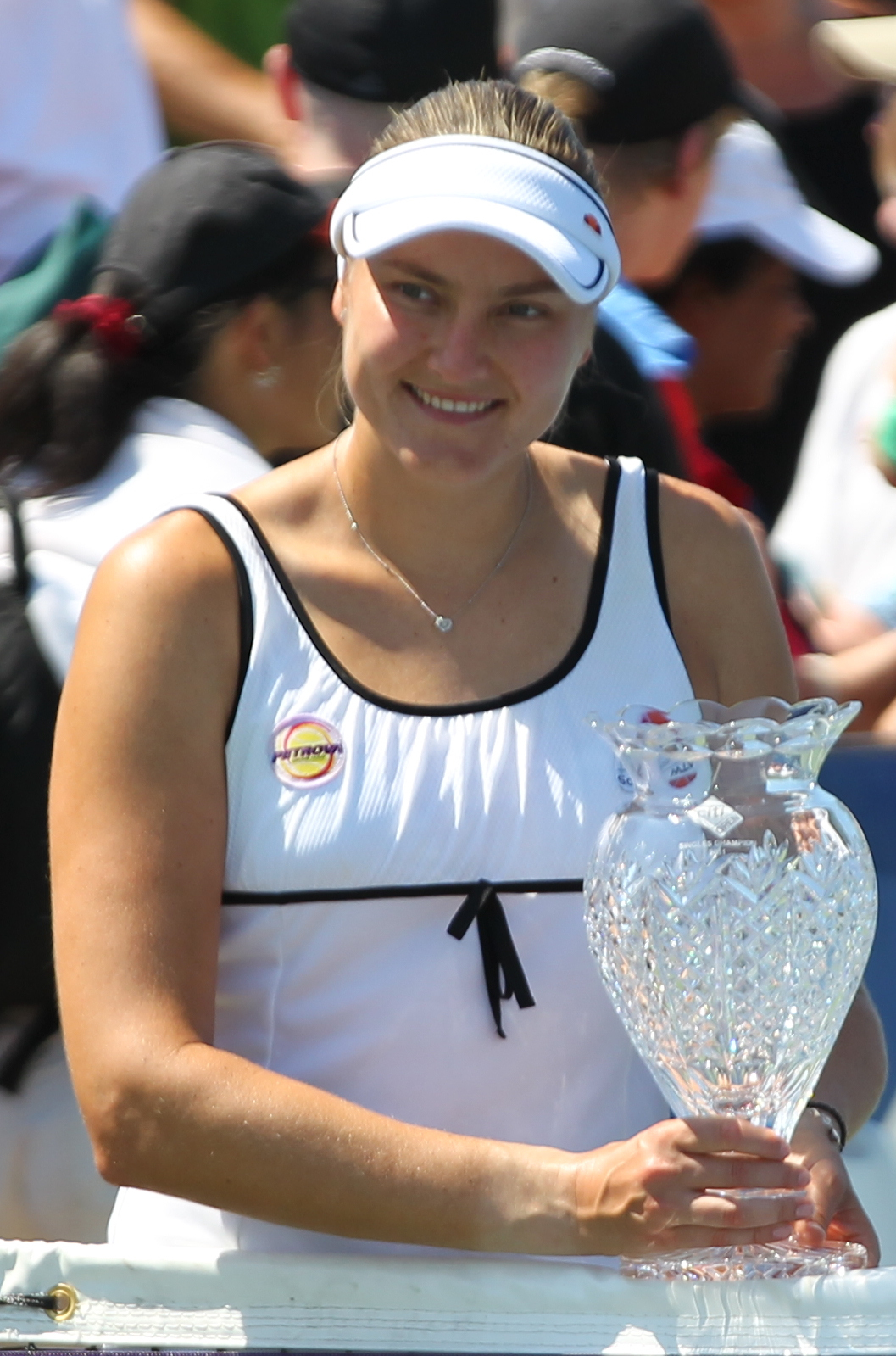 Citi Open Tennis Final July 31, 2011